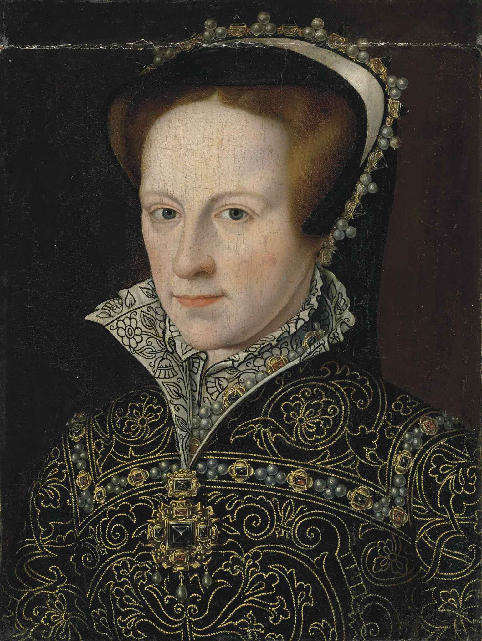 Portrait of Mary I of England after the face pattern by Anthonis Mor. In this version Mary is depicted in an elaborately embroidered dress with a blackwork-lined Medici collar and matching high-necked smock, with a French hood.